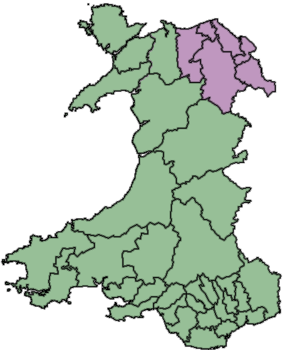 Clwyd Area of Search